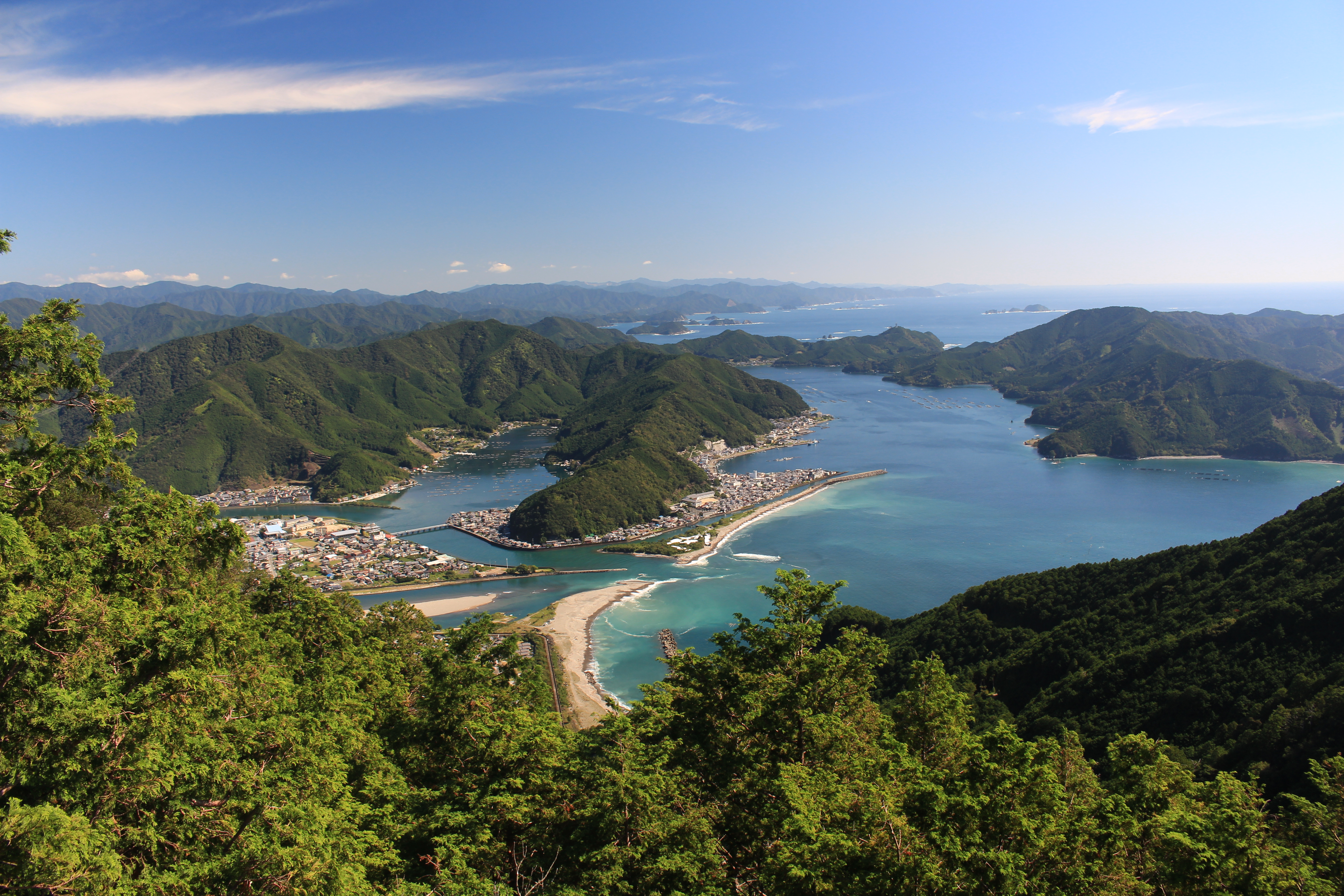 Port of Hikimoto and Lake Shiraishi seen from Ochoboiwa on Mount Tengura, in Mie prefecture, Japan.